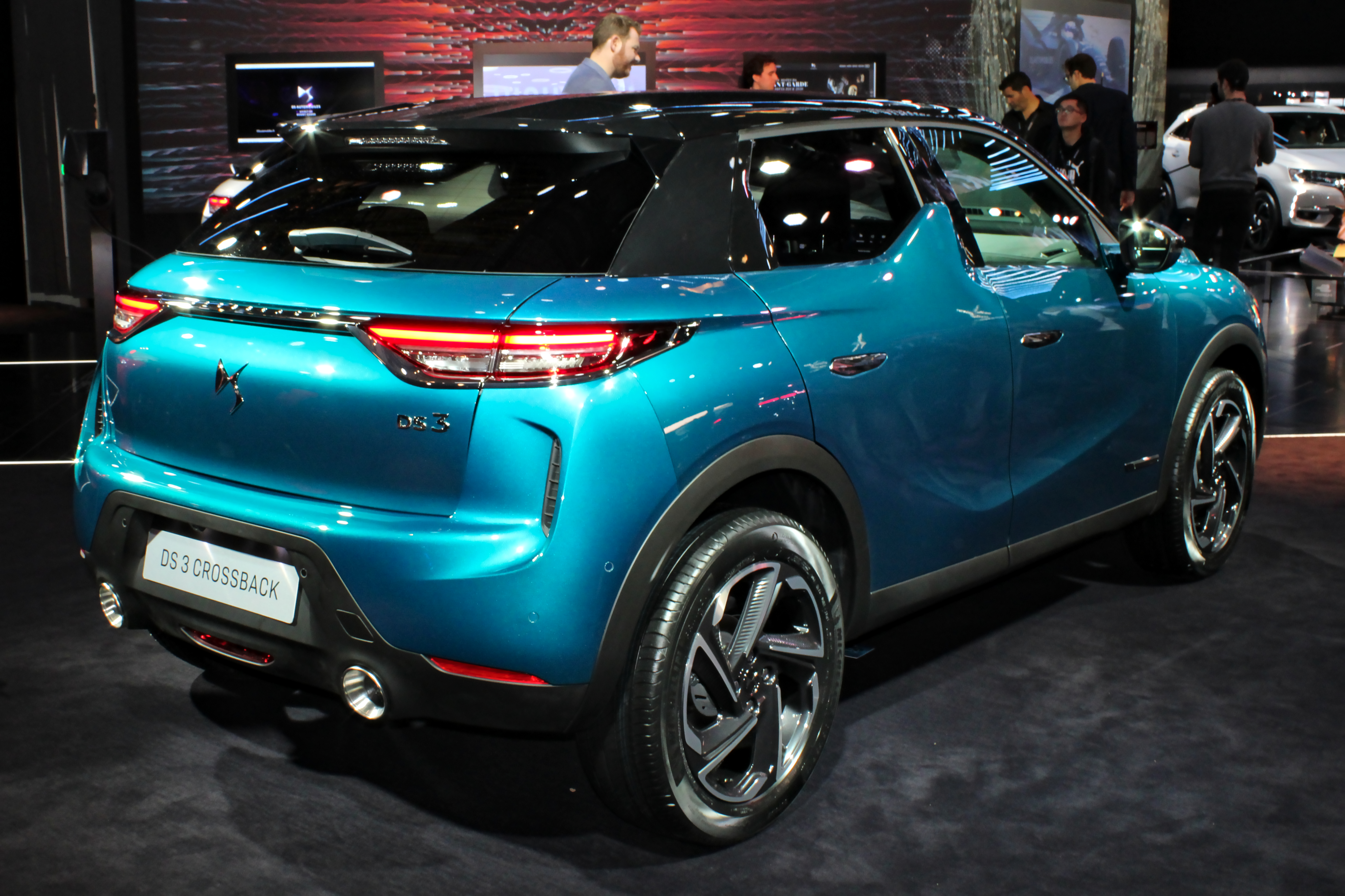 DS3 Crossback at Paris Motor Show 2018